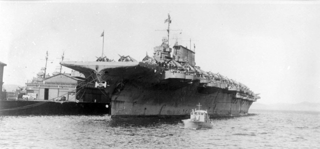 OCEAN PIER, HOBART, TAS. 1944-03-15. PORT BOW VIEW OF THE AIRCRAFT CARRIER USS SARATOGA